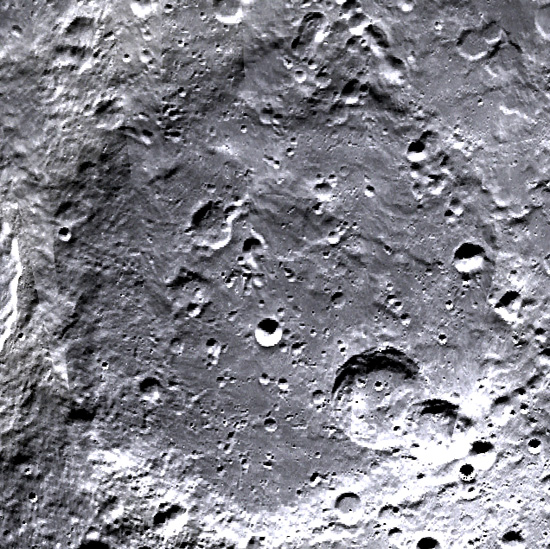 Clementine image from Map-A-Planet -- aerial viewed using LTVT